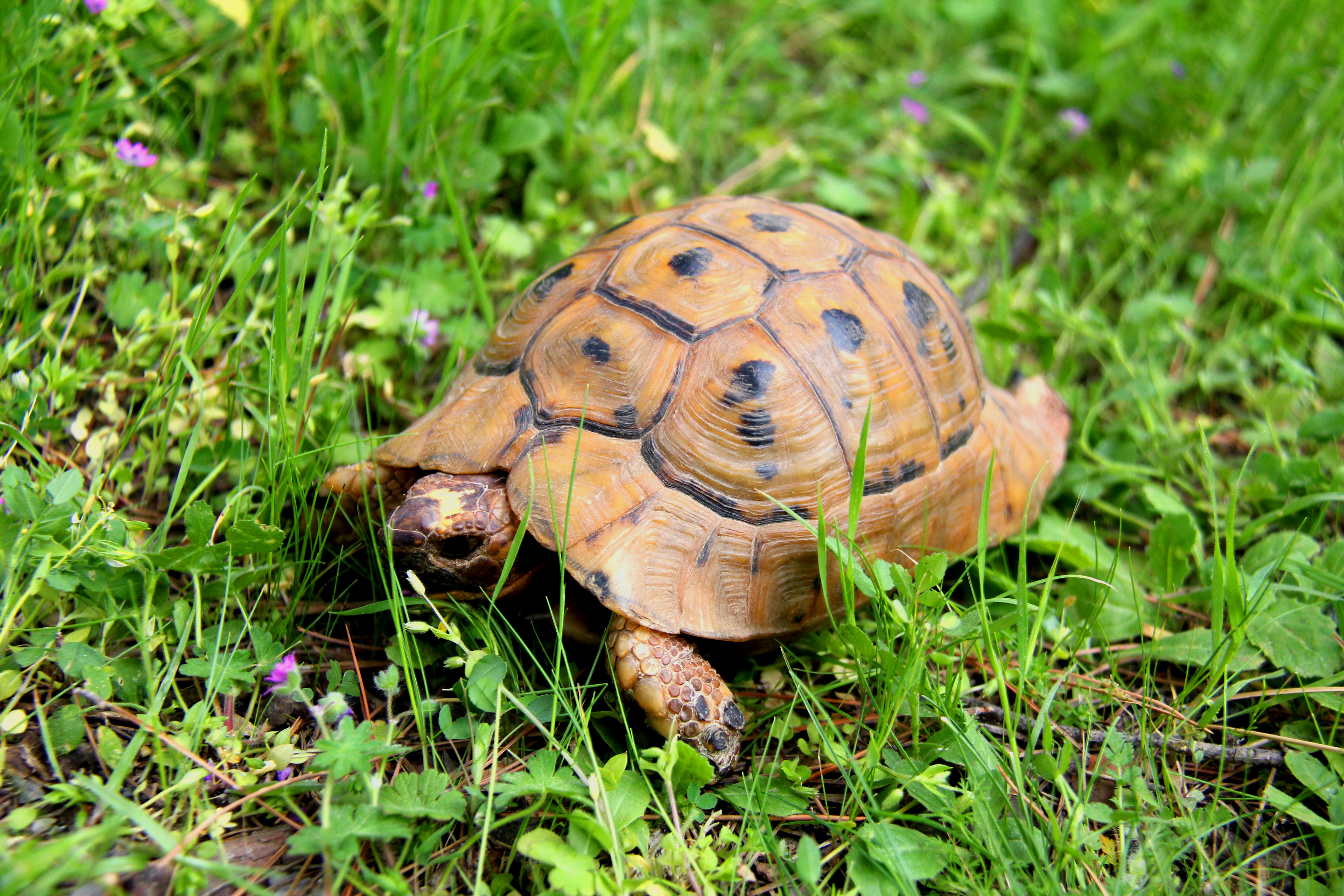 A Spur-thighed tortorise (Testudo graeca terrestris) at Dibbeen nature reserve in northern Jordan.